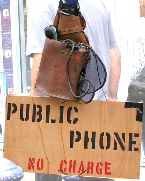 I took this photo myself, and "touched it up" in photoshop.